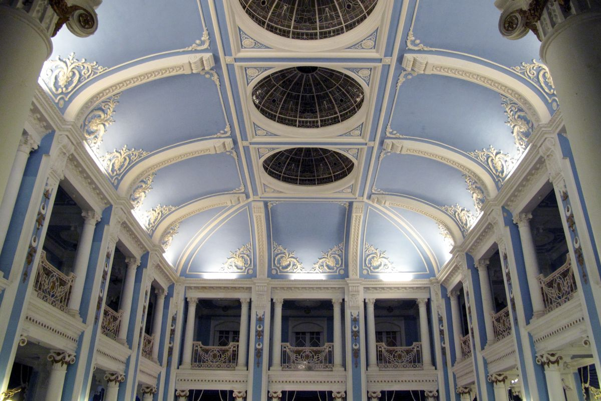 The ballroom, now the restaurant.